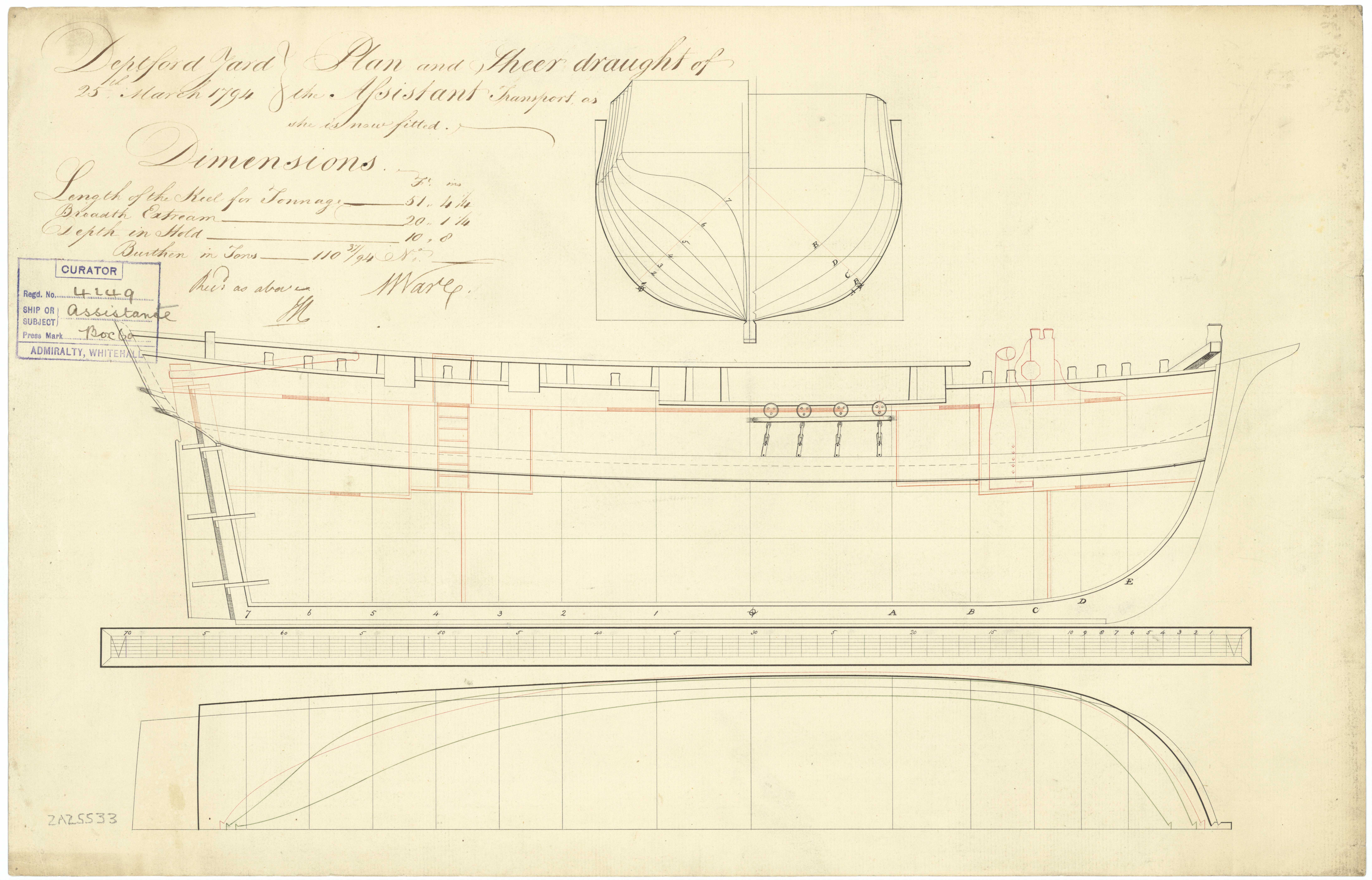 'Assistant' (1791) Scale: 1:48. A plan showing the body plan, sheer lines with some inboard detail, and longitudinal half-breadth for 'Assistant' (1791?), an Armed Tender as fitted for a Transport at Deptford Dockyard in 1794. Signed by Martin Ware [Master Shipwright, Deptford Dockyard, 1787-1795]. 'Assistant' (1791?) lines and profile